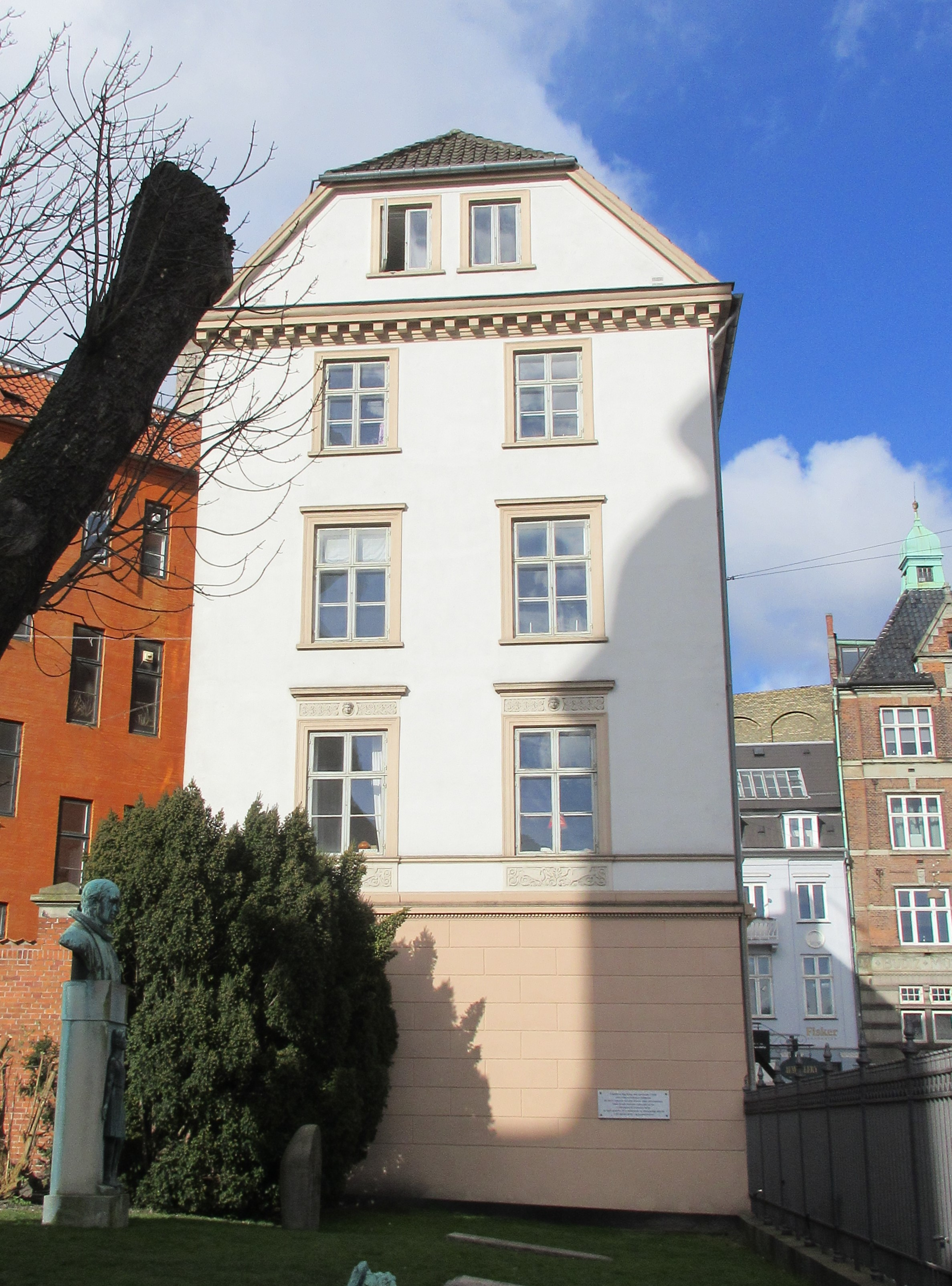 The building at Sankt Annæ Plads 2/Bredgade 24 in Copenhagen, Denmark